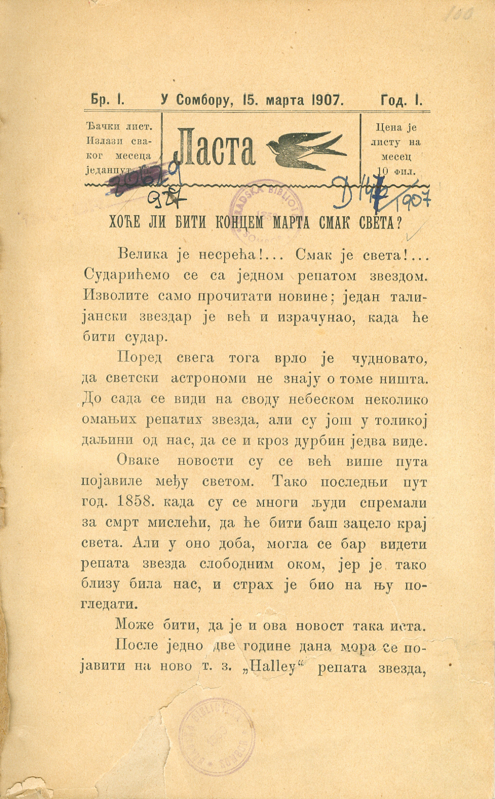 Lasta, magazine for children, number 1, 1907, Sombor